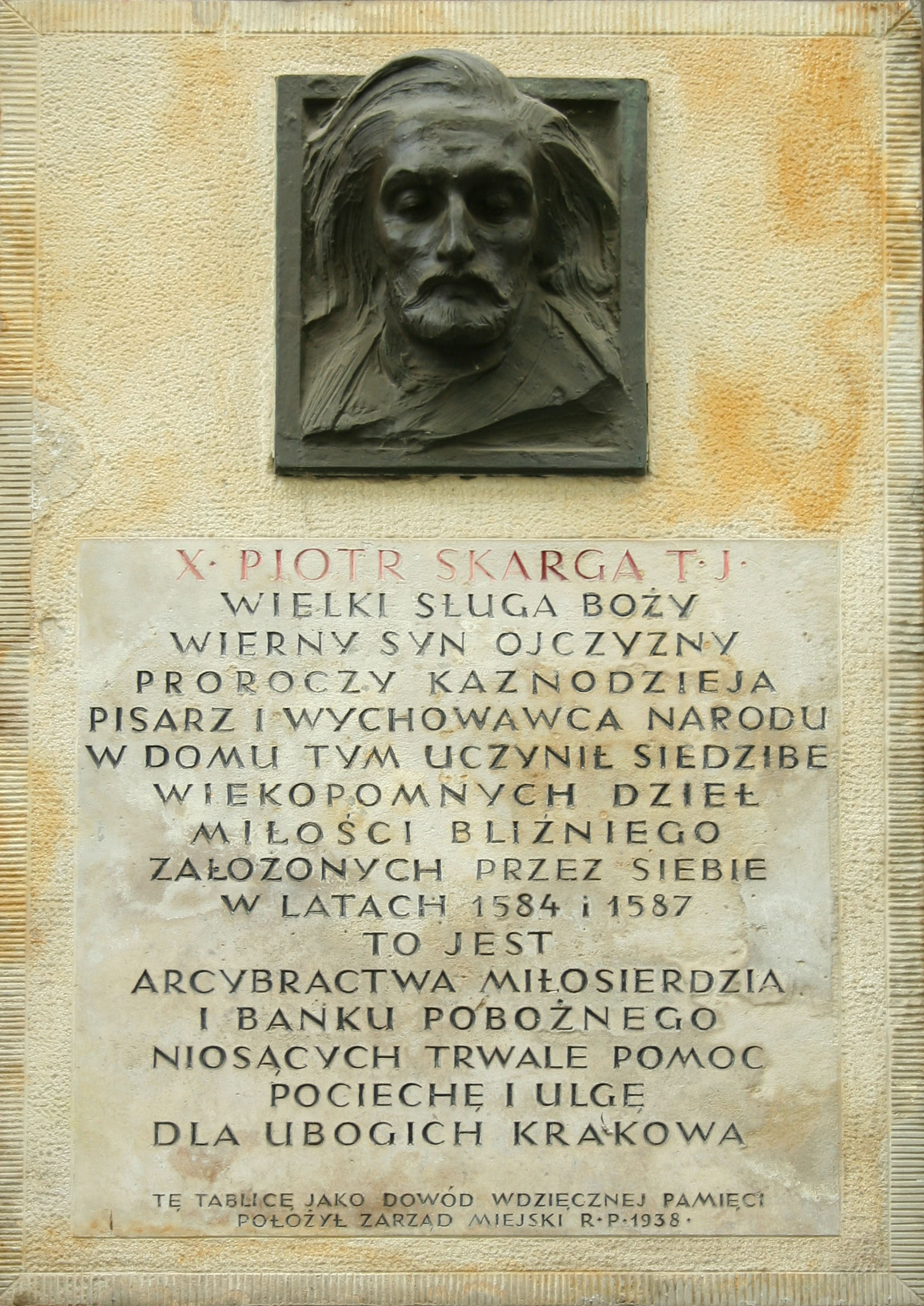 Memorial of Piotr Skarga, Polish Jesuit, preacher, Kraków, Sienna Street, Poland